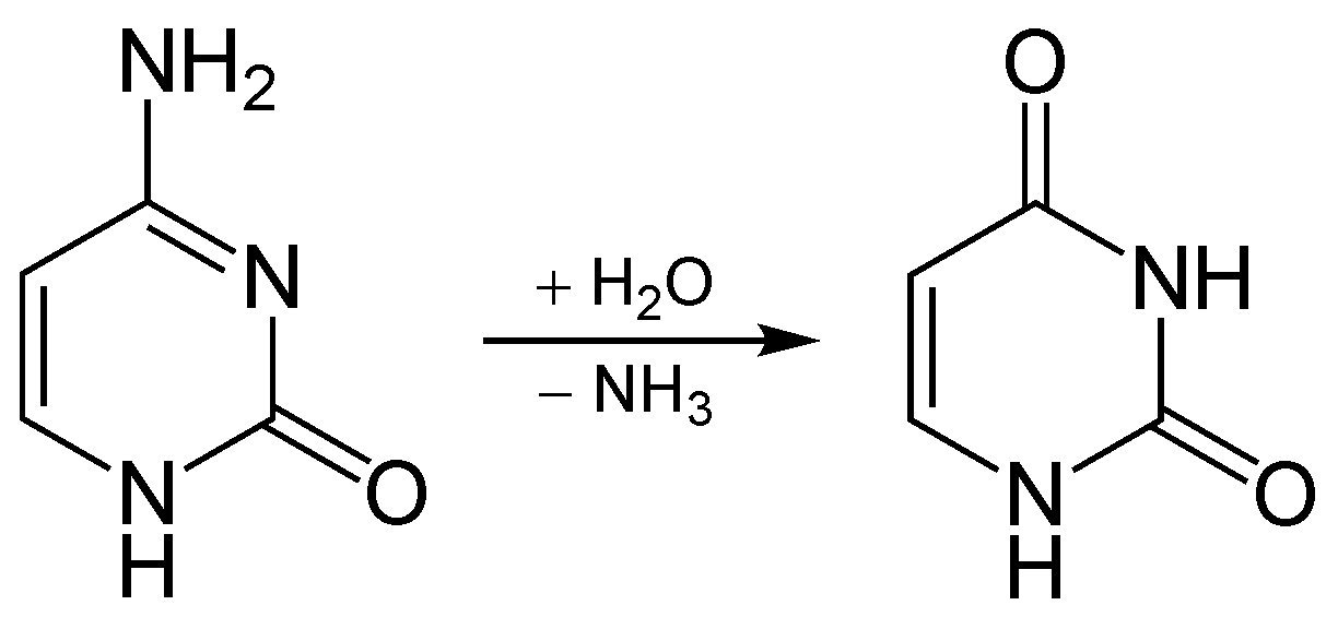 Deamidation of cytosine to uracil